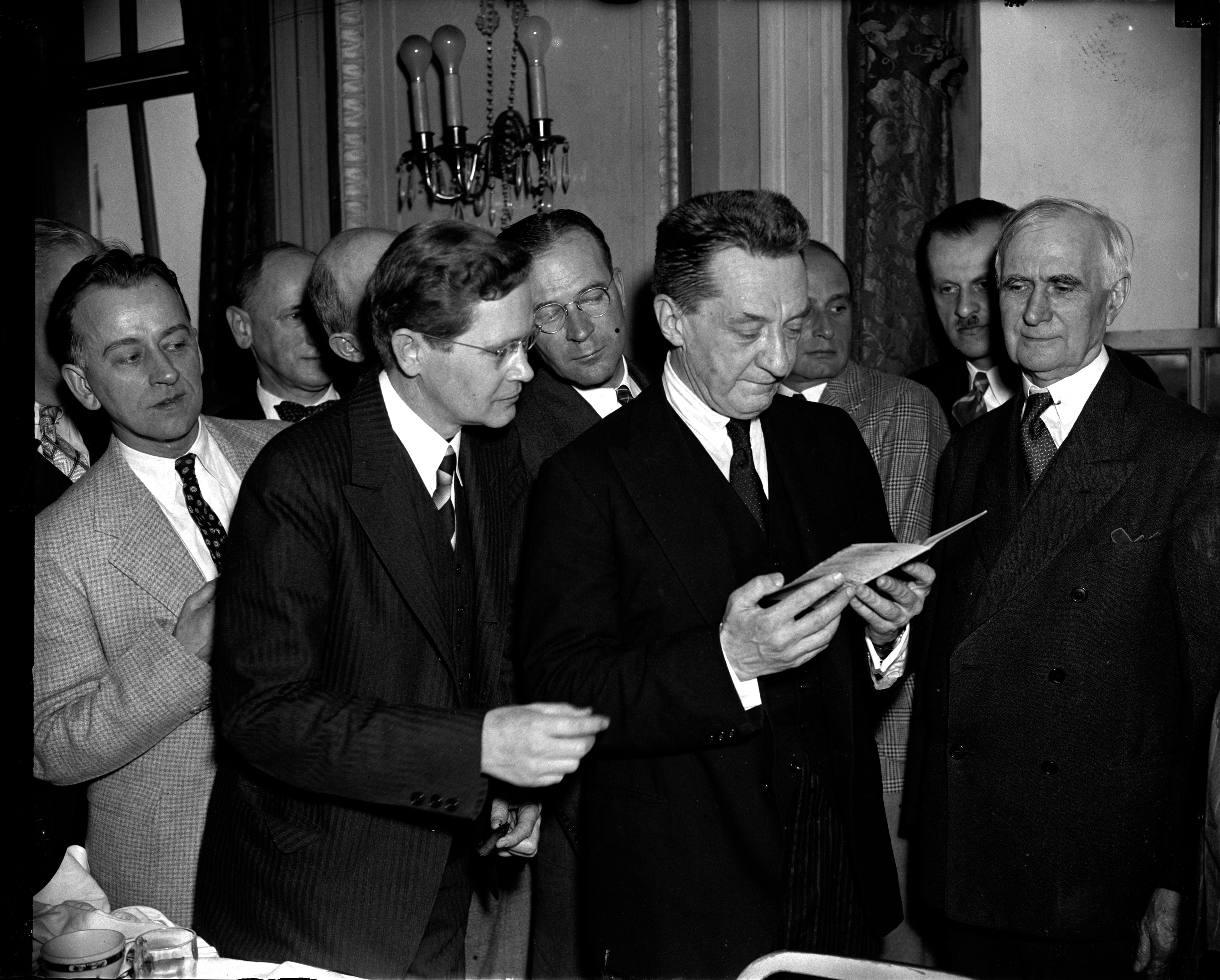 20-Year signature interests Kerensky. Washington, D.C., April 21. Following a talk to members of the National Press Club today, Alexander Kerensky, Head of the Russian Provisional Government of 1917, is shown a passport issued and signed by him to D. Heywood Hardy (left), Washington attorney who served with the Red Cross in Russia during World War days. After expelling Kerensky from Russia, Lenin put his signature under that of Kerensky on the passport, 4/21/38